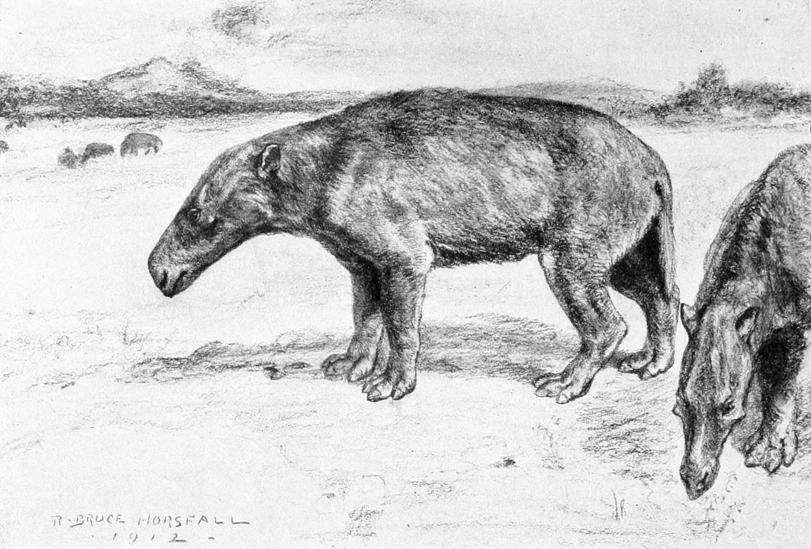 Life restoration of Sphenocoelus intermedius (formerly Mesatirhinus superior) from W.B. Scott's "A History of Land Mammals in the Western Hemisphere." New York: The Macmillan Company.